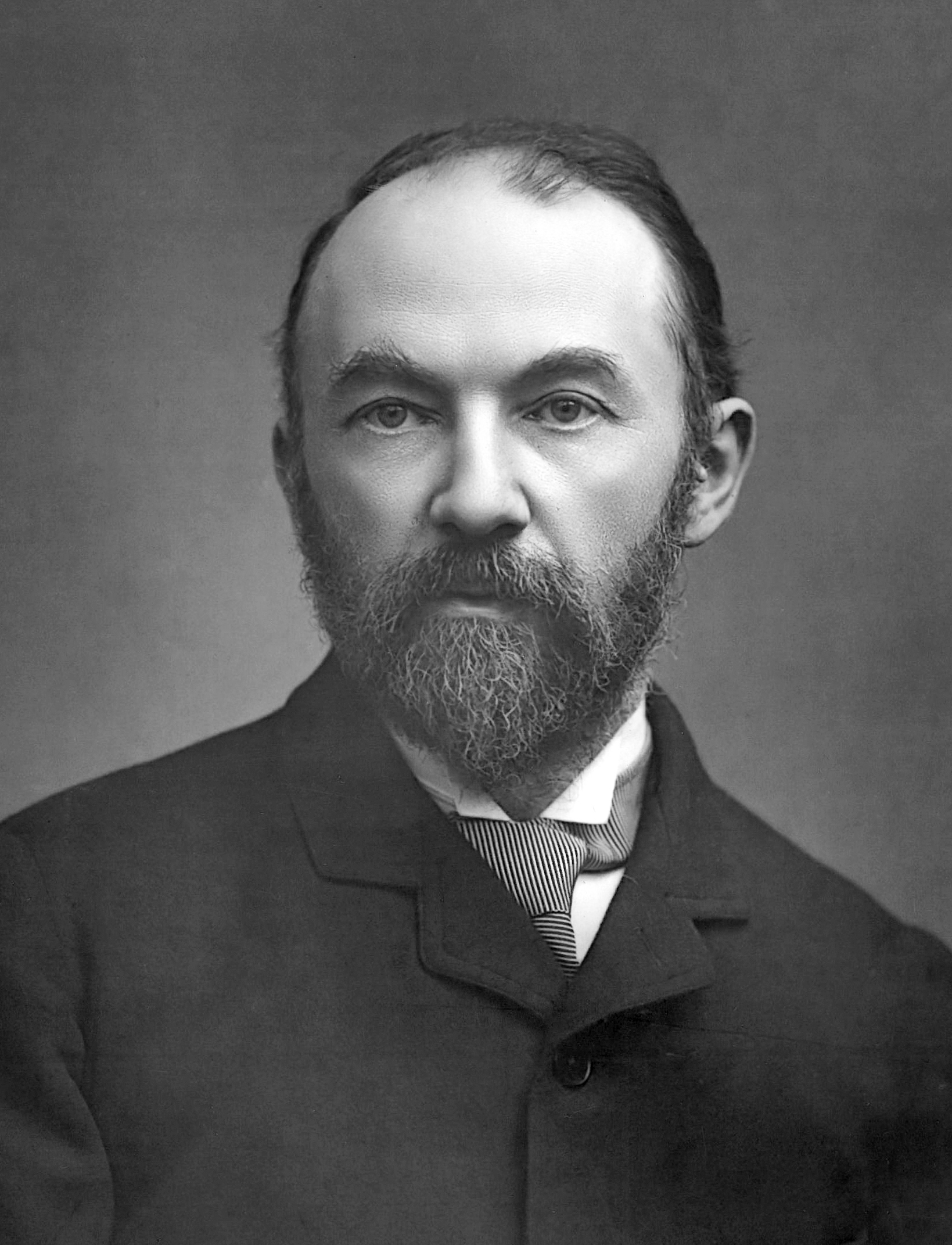 Portrait of Thomas Hardy, Woodburytype, 10.5 x 7.5 in. / 26.7 x 19 cm.